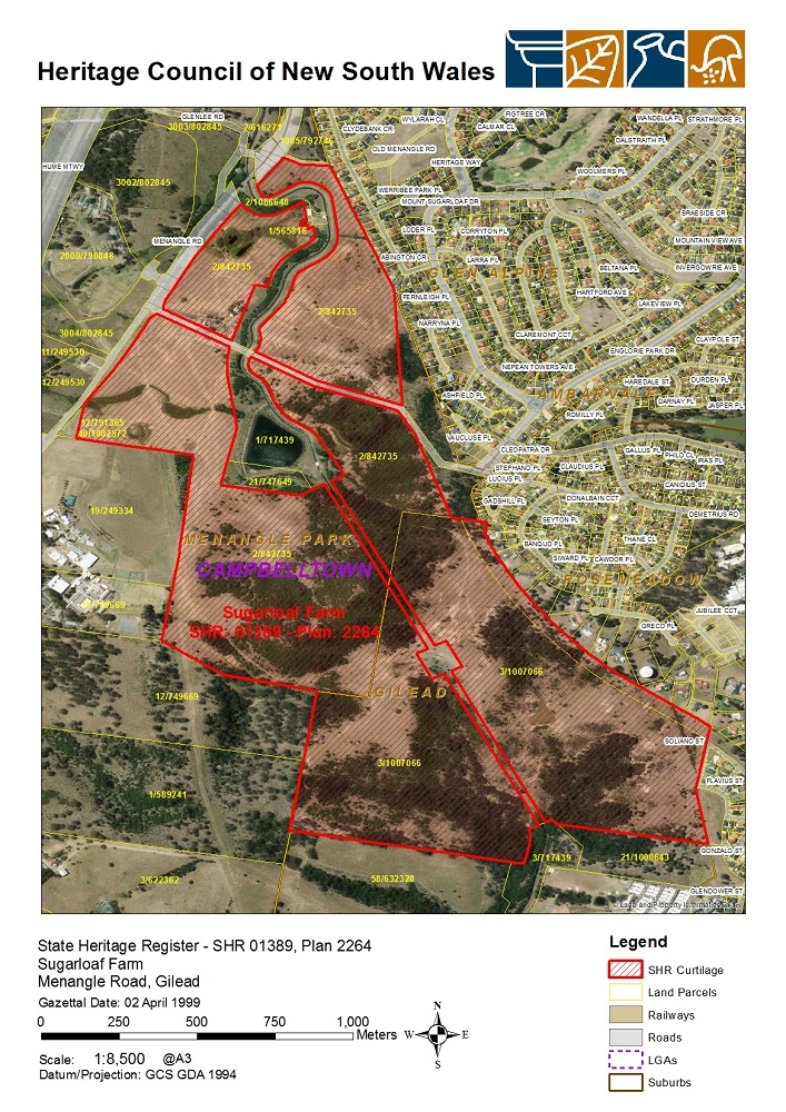 Sugarloaf Farm: SHR Plan 2264